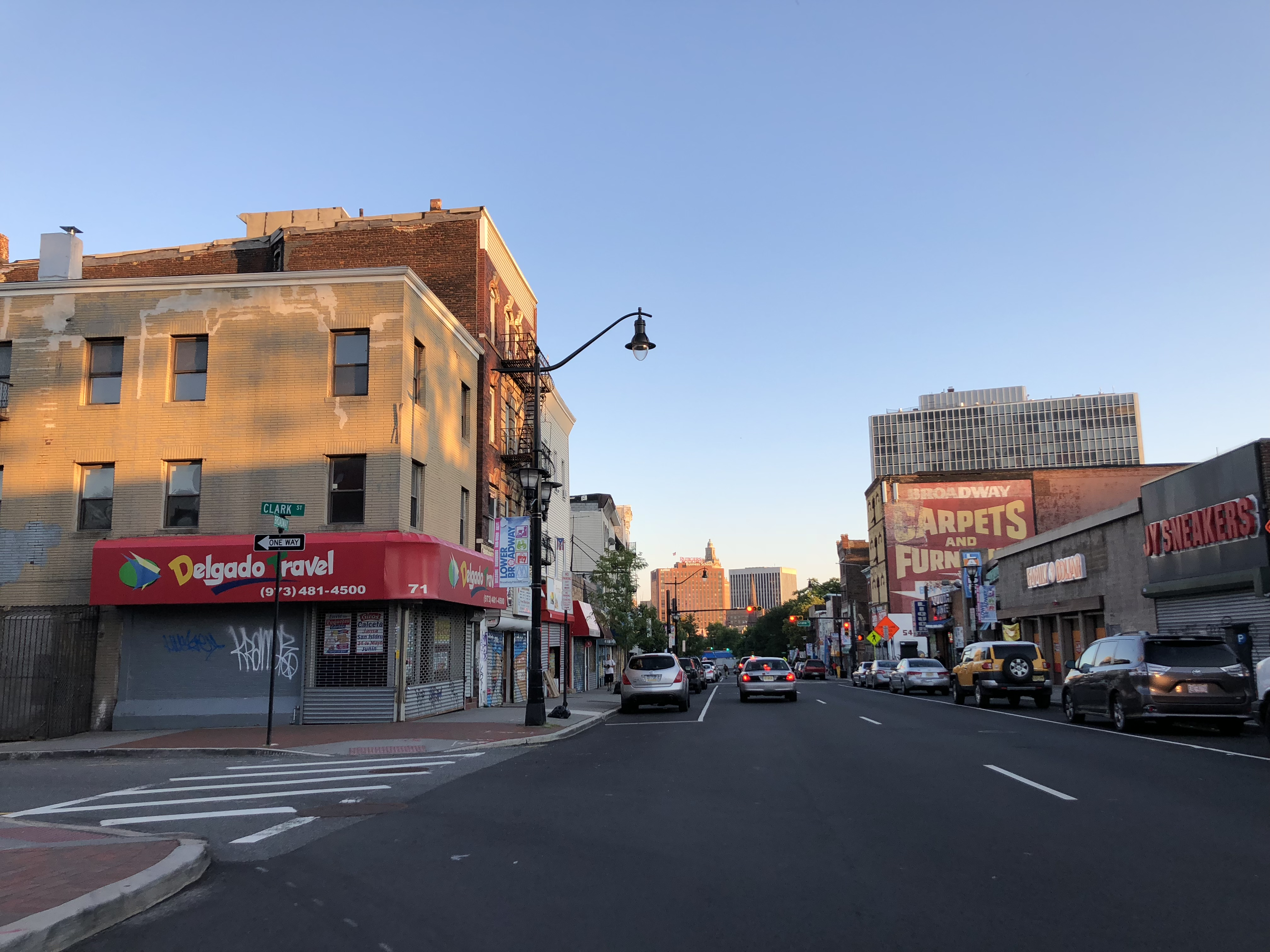 View east along Essex County Route 506 Spur (Broadway) at Clark Street in Newark, Essex County, New Jersey